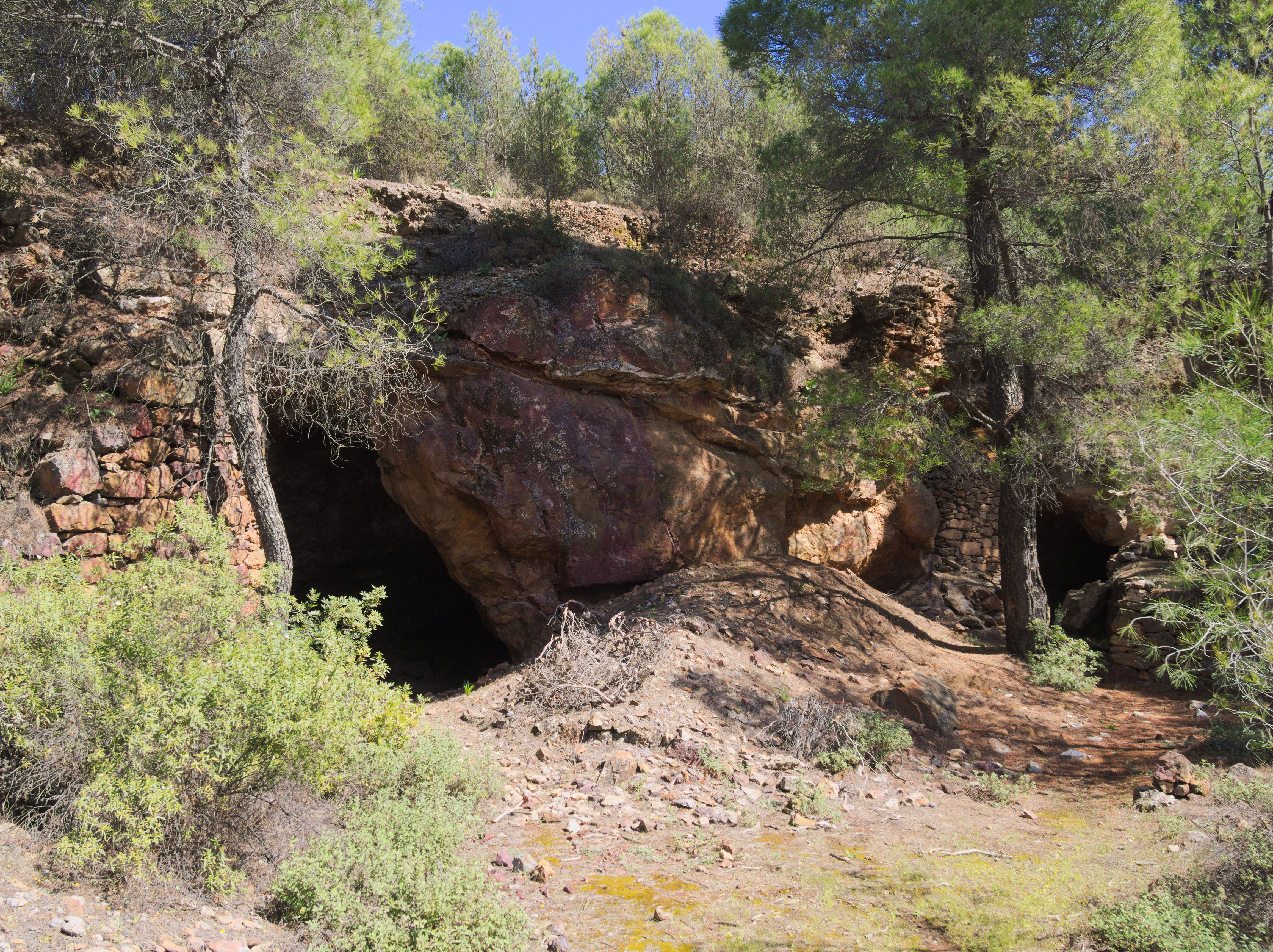 Mining galleries in Laurium. This is a photography of Natura 2000 protected area with ID GR3000005